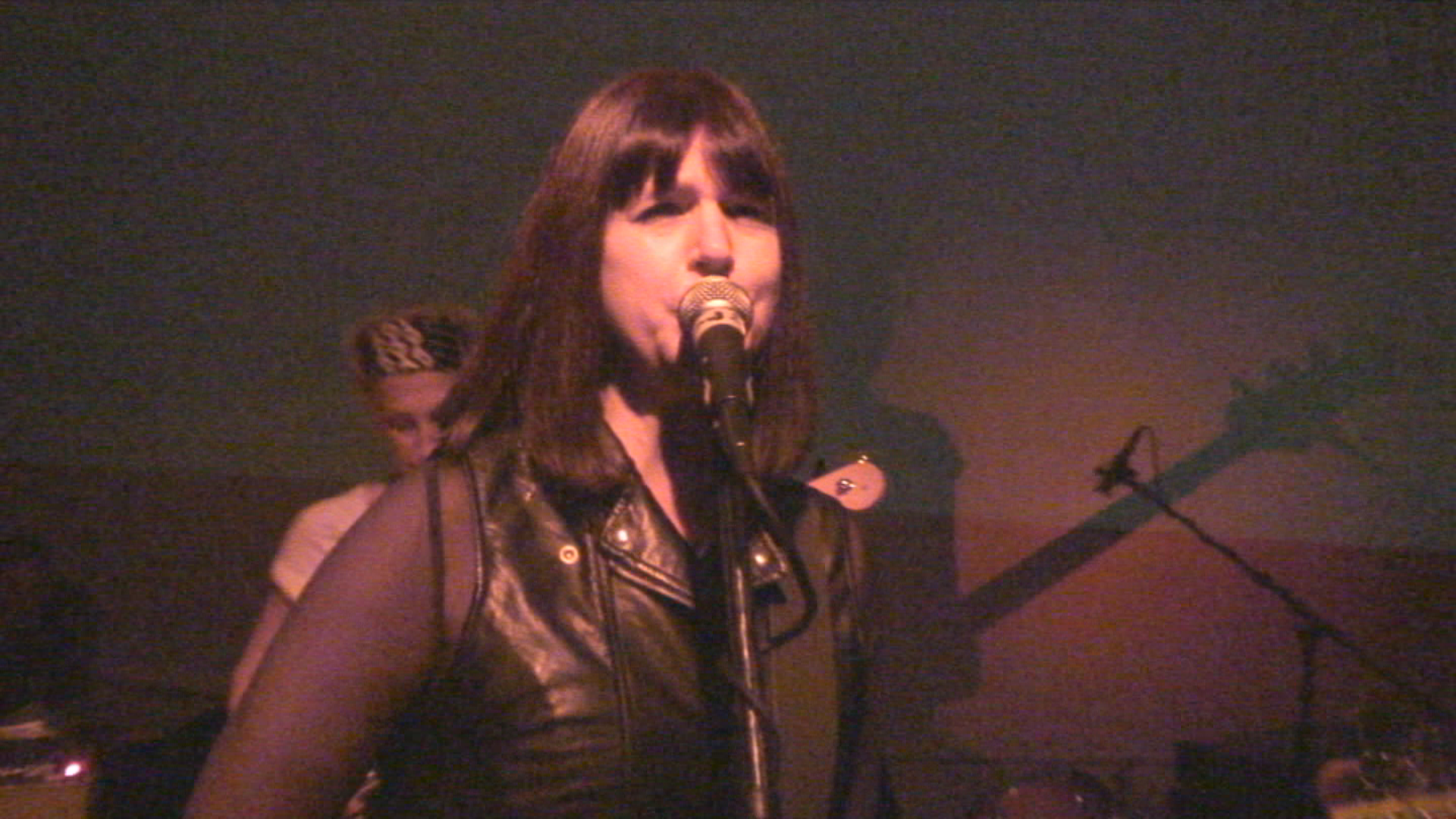 Sally Young performing with Ut at Issue Project Room NYC on November 5 2010